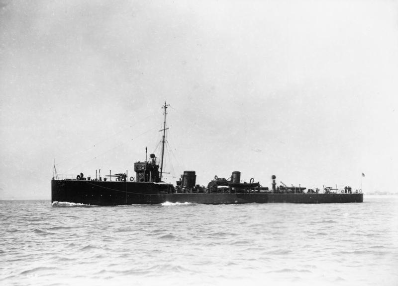 Photograph of British Acheron class destroyer HMS Badger